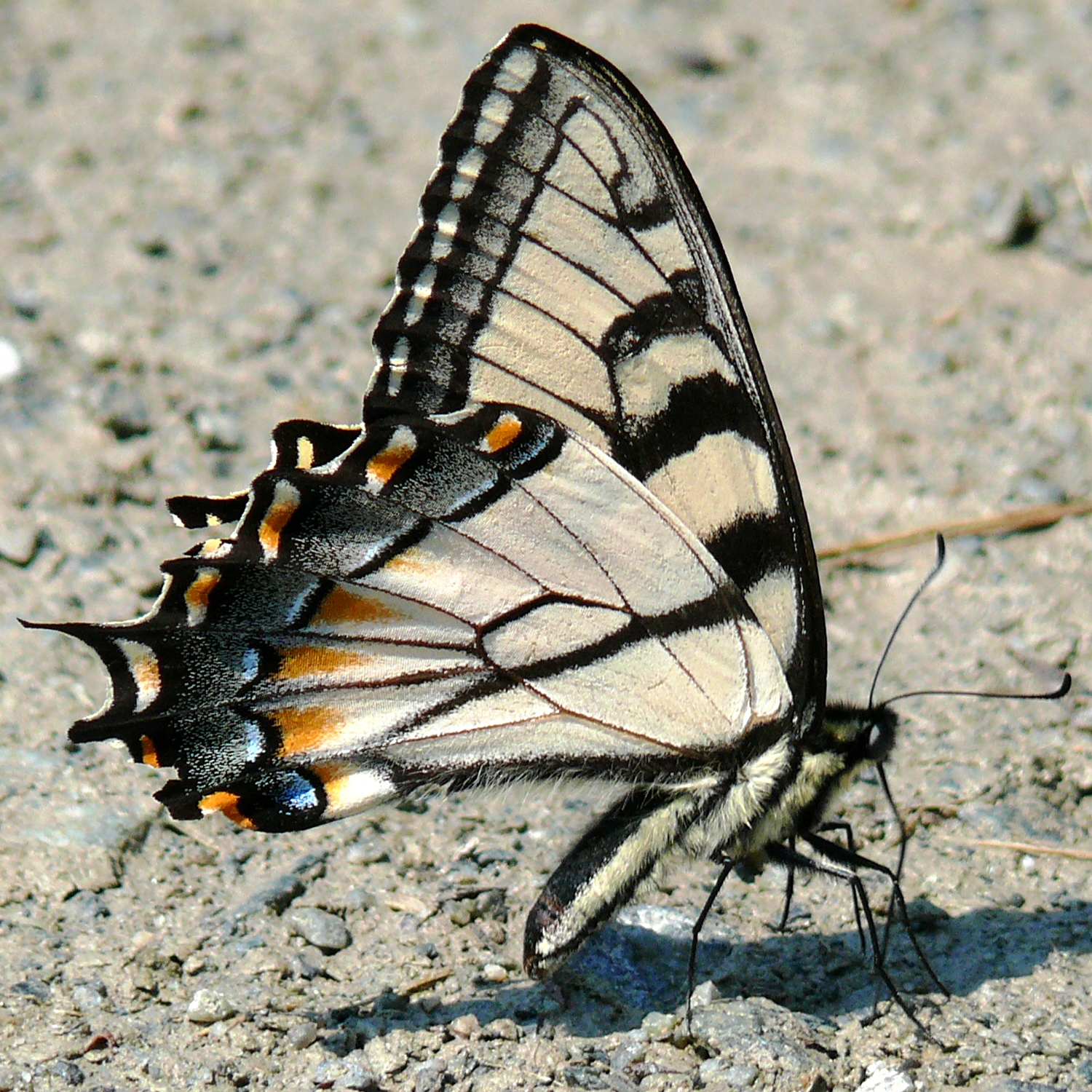 An Appalachian Tiger Swallowtail (Papilio appalachiensis). Photo taken with a Panasonic Lumix DMC-FZ50 near the village of Valle Crucis in Watauga County, NC, USA. NOTE: Butterfly identification is notoriously difficult, and I'm not an expert on the subject by any stretch of the imagination. This butterfly may be an Eastern Tiger Swallowtail (Papilio glaucus) instead - my preliminary identification is based entirely on the size of the specimen (which unfortunately isn't obvious in the photo) and where the butterfly was located. If I have misidentified the species, please let me know and I'll be happy to change the description.